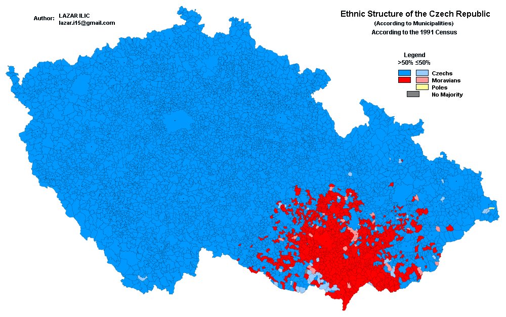 This is an ethnic map of the Czech Republic, and shows the ethnic structure according to the 1991 census, according to municipalities.